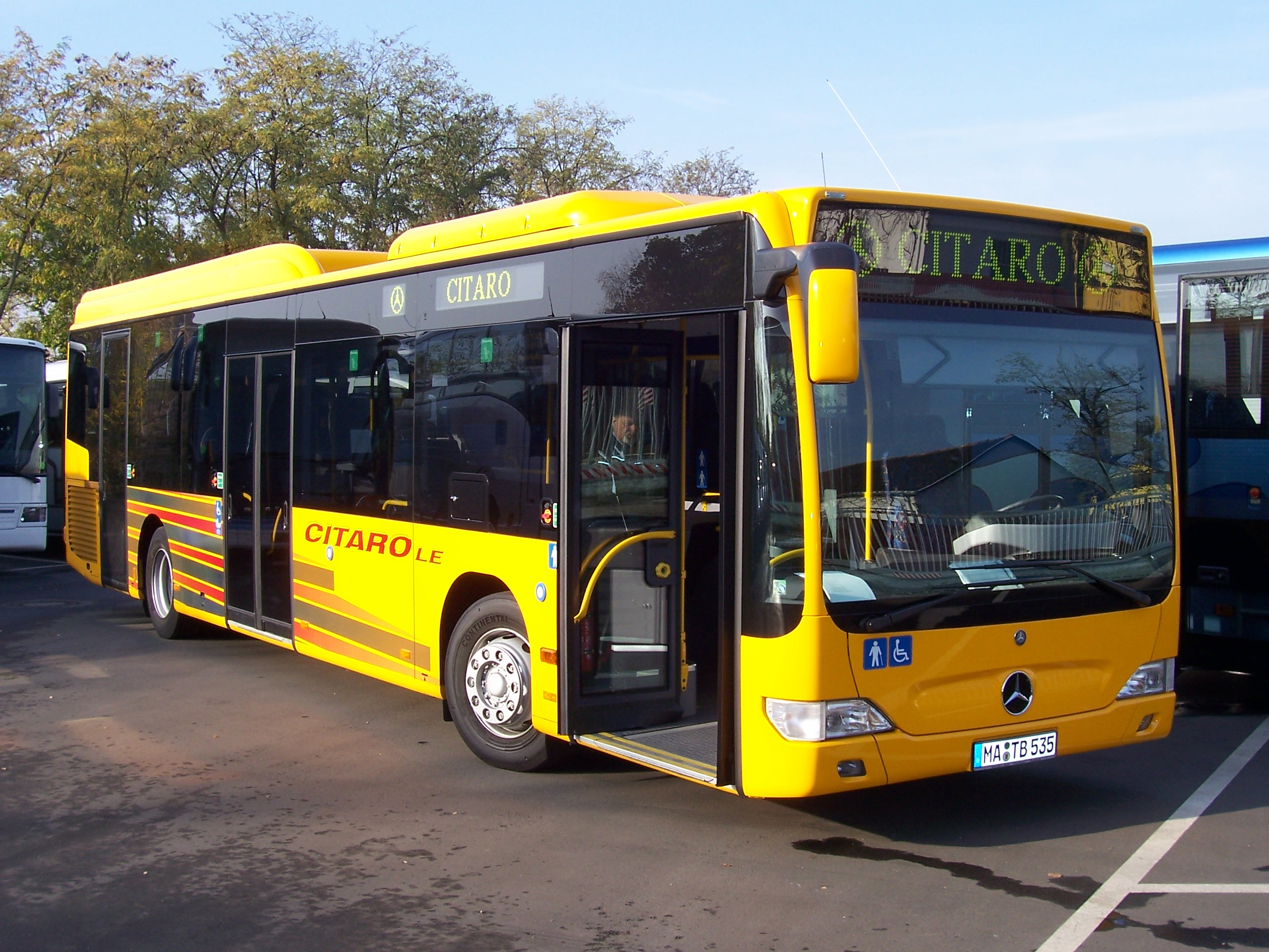 An EvoBus/Mercedes-Benz Citaro LE at MOT 2005 in Mannheim, Germany My own photo from 13-nov-2005